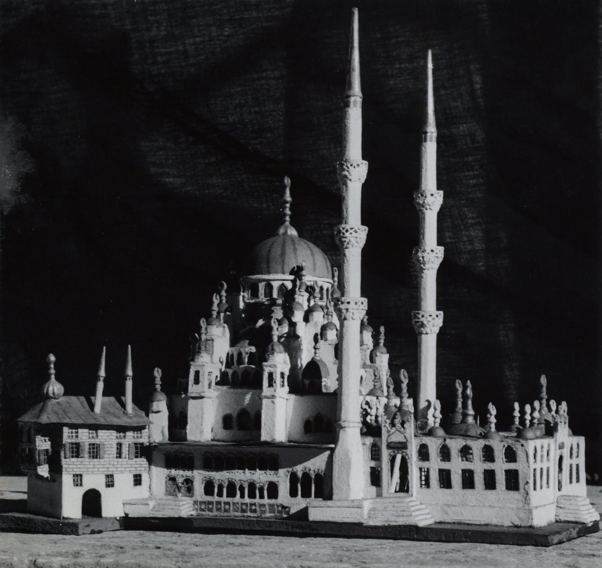 Yeni Valide Mosque Complex, located in Eminönü, across the flower market, has the longest construction duration of a complex in Ottoman history. The building begun in 1589 in the name of Safiye Sultan, the wife of Murat III. After a while the construction stopped and the complex was finished on the order of Valide Turhan Sultan, the mother of Mehmet IV. The Hünkar Mansion, having the best view of the complex is located right next to the mosque. Consisting of two large rooms, one iwan and one bathroom, the building is connected to the Hünkar’s lodge through a long corridor, in order to provide Sultan’s passing to the mosque. Comprising rare ornamentations of the 17th century like mother-of pearl, plaster work and wooden works, the mansion stands out with it’s unique ceramics ornamentation, produced in İznik. The building was restorated in 2004 with the colloboration of İstanbul Chamber of Commerce, Pious Foundations and Preservation Council, with 50 specialists. SALT Research, Ali Saim Ülgen Archive Eminönü’nde Mısır Çarşısı’nın karşısında yer alan Yeni Valide Camii Külliyesi, Osmanlı tarihi boyunca yapımı en uzun süren külliyedir. İnşasına III. Murat’ın eşi Safiye Sultan adına 1589’da başlandı. Bir süre yapımı durduktan sonra IV. Mehmet’in annesi Valide Turhan Sultan’ın emriyle 1663’te tamamlandı. Külliyenin en göz alıcı manzarasına sahip olan Hünkâr Kasrı caminin bitişiğinde yer alır. Denize bakan biri kubbeli iki büyük oda, bir eyvan ve bir heladan oluşan yapı, sultanın camiye geçişini sağlayan uzun bir koridorla hünkâr mahfiline bağlanır. 17. yüzyıla ait nadir sedefkâri, tunç alçı ve kündekâri süsleme örneklerini barındıran Hünkâr Kasrı, İznik’te üretilmiş ve eşine hiçbir yerde rastlanamayacak türden bir desen düzenlemesine sahip çinileriyle dikkati çeker. Yapı 2004’te Koruma Kurulu, Vakıflar Bölge Müdürlüğü ve İstanbul Ticaret Odası’nın ortaklaşa yürüttüğü proje kapsamında 50 uzman tarafından restore edilmiştir. SALT Araştırma, Ali Saim Ülgen Arşivi